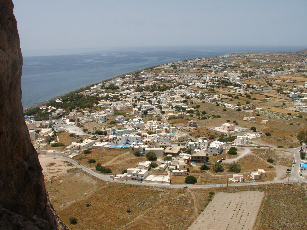 Perissa as seen from the hill of Ancient Thira (Santorini, Greece).